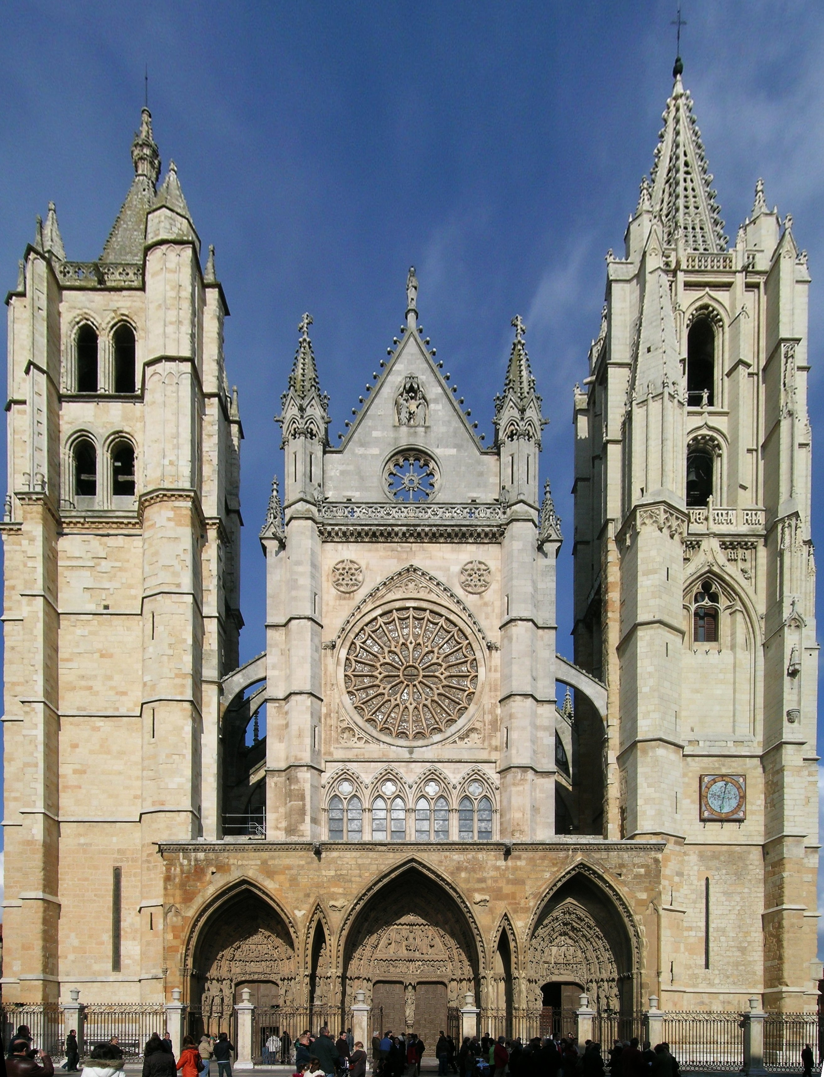 façade of the cathedral of Leon, Spain. I created it taking three different pictures and stitching them together using autopano, hugin and enblend. I have also inverted the perspective, so that it looks like I have taken the picture exactly in front of the façade (while I was on the bottom, obviously). Post-processed with Gimp.